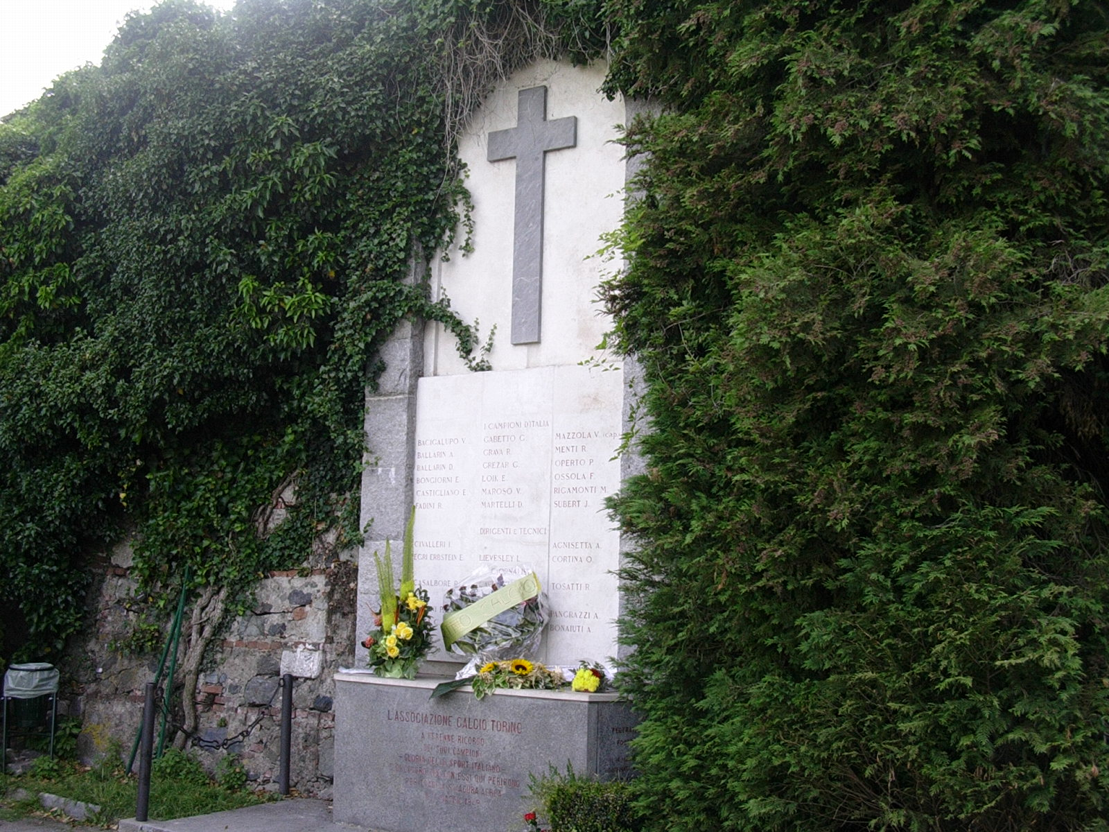 Memorial plaque to the victims of the Superga air disaster, 1949-05-14